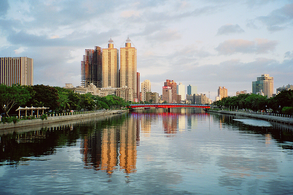 The Love River flowing through downtown Kaohsiung, Taiwan.